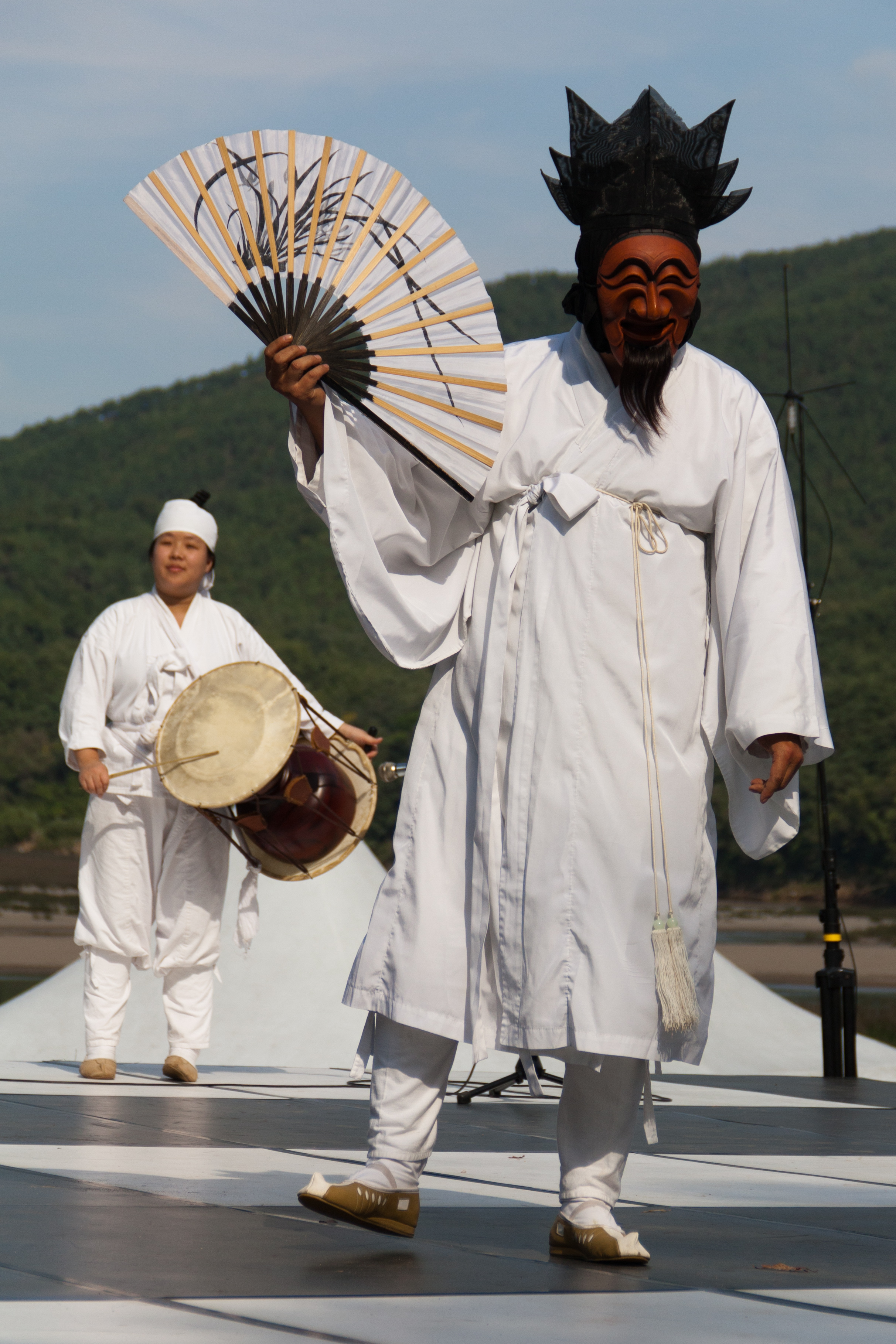 Hahoe Mask Dance